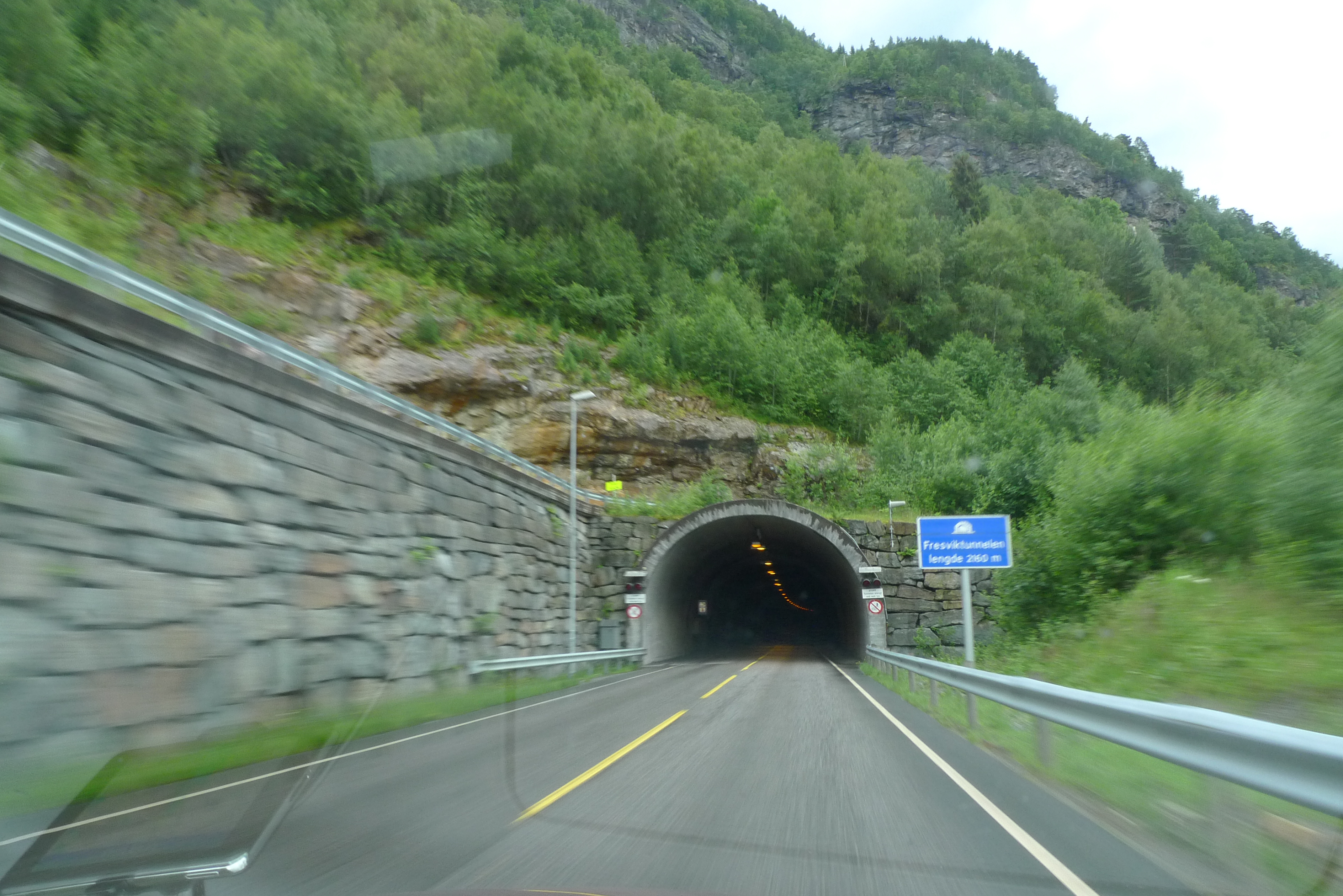 Fresviktunnelen in Ullensvang municipality, Norway. Original description: Tour Hardangervidda 2011